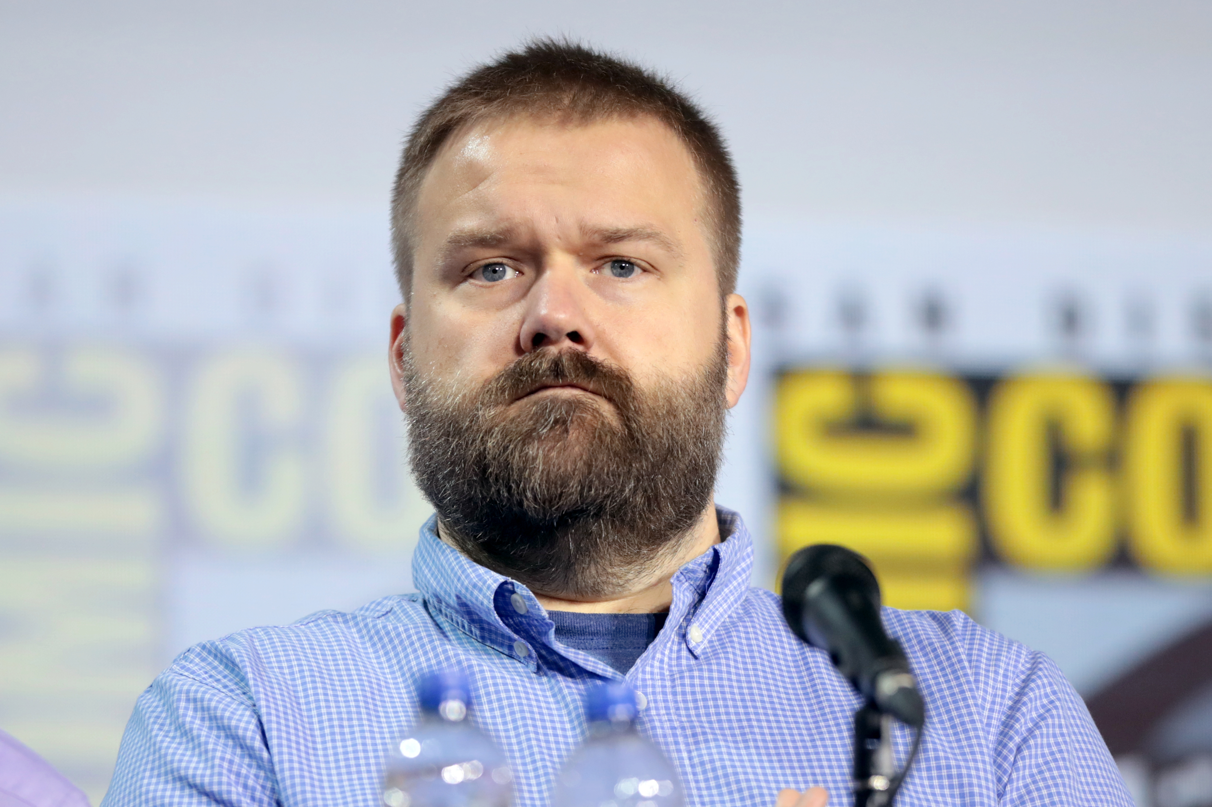 Robert Kirkman speaking at the 2019 San Diego Comic Con International, for "The Walking Dead", at the San Diego Convention Center in San Diego, California.